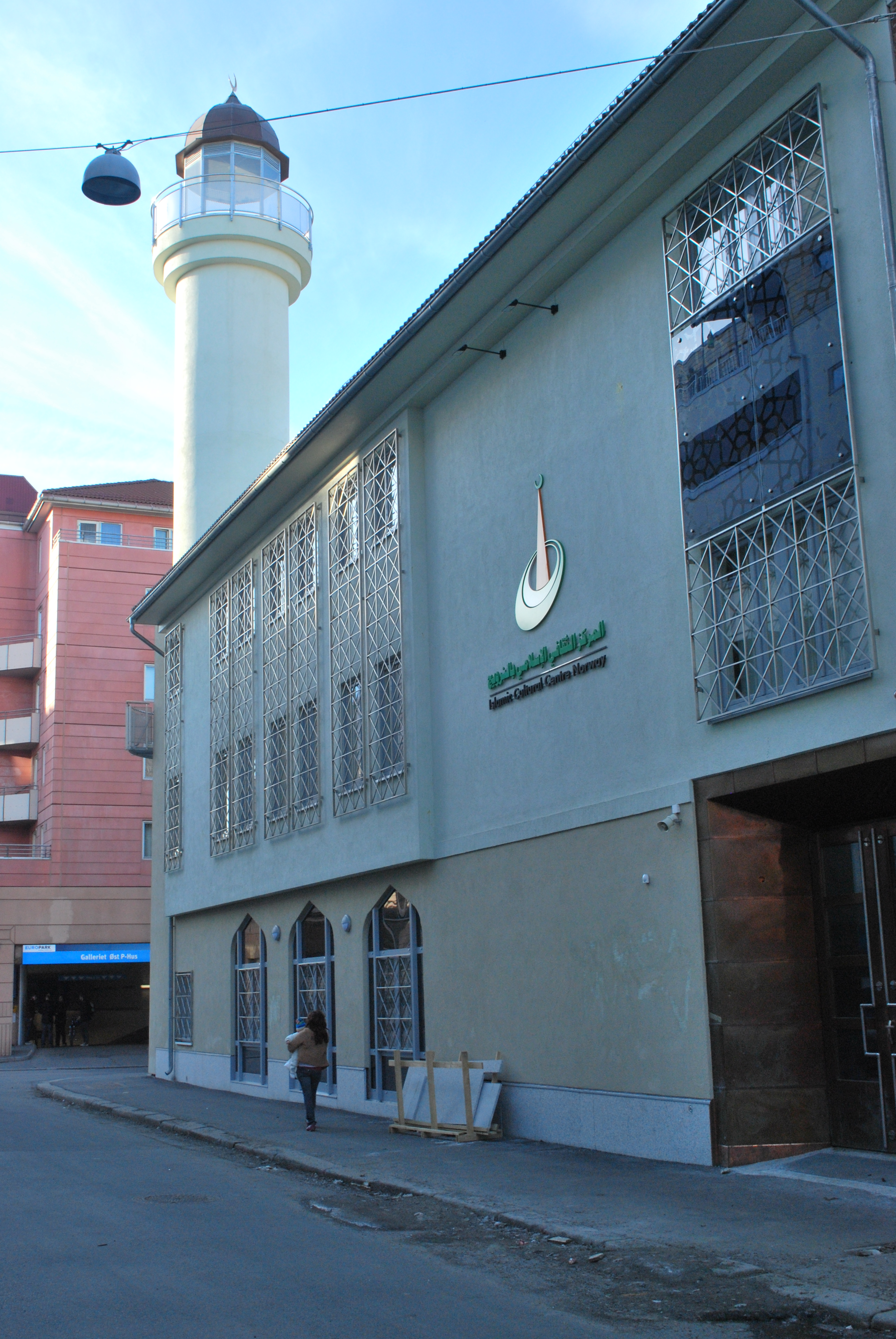 Islamic Cultural Centre Norway, Rubina Ranas gate, Grønland, Oslo